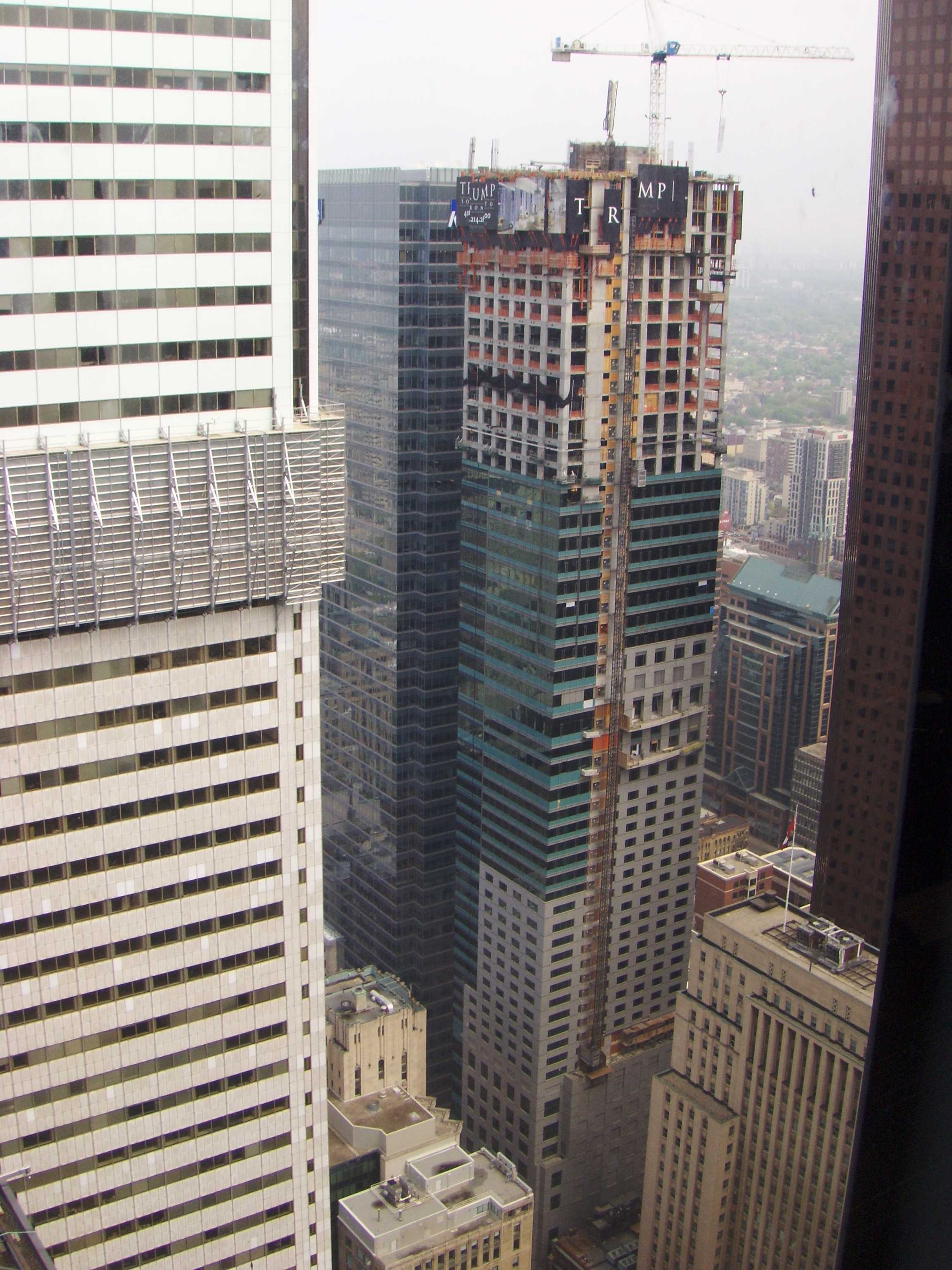 Trump Tower under construction, as viewed from executive offices of the Toronto-Dominion Building, during 2011 Doors Open Toronto.